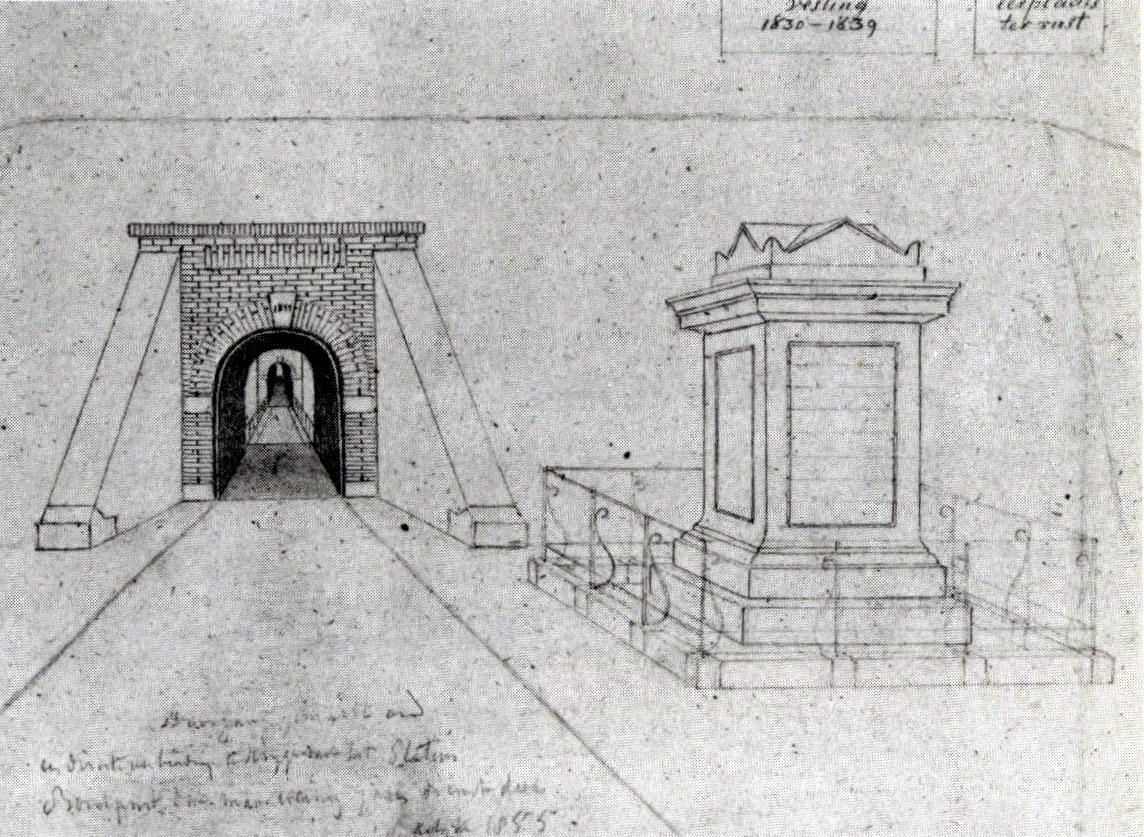 Maastricht, the Netherlands. View from the north of Boschpoort and the cenotaph for baron Dibbets, military governor of Maastricht. Drawingby Jan Brabant, c. 1857.